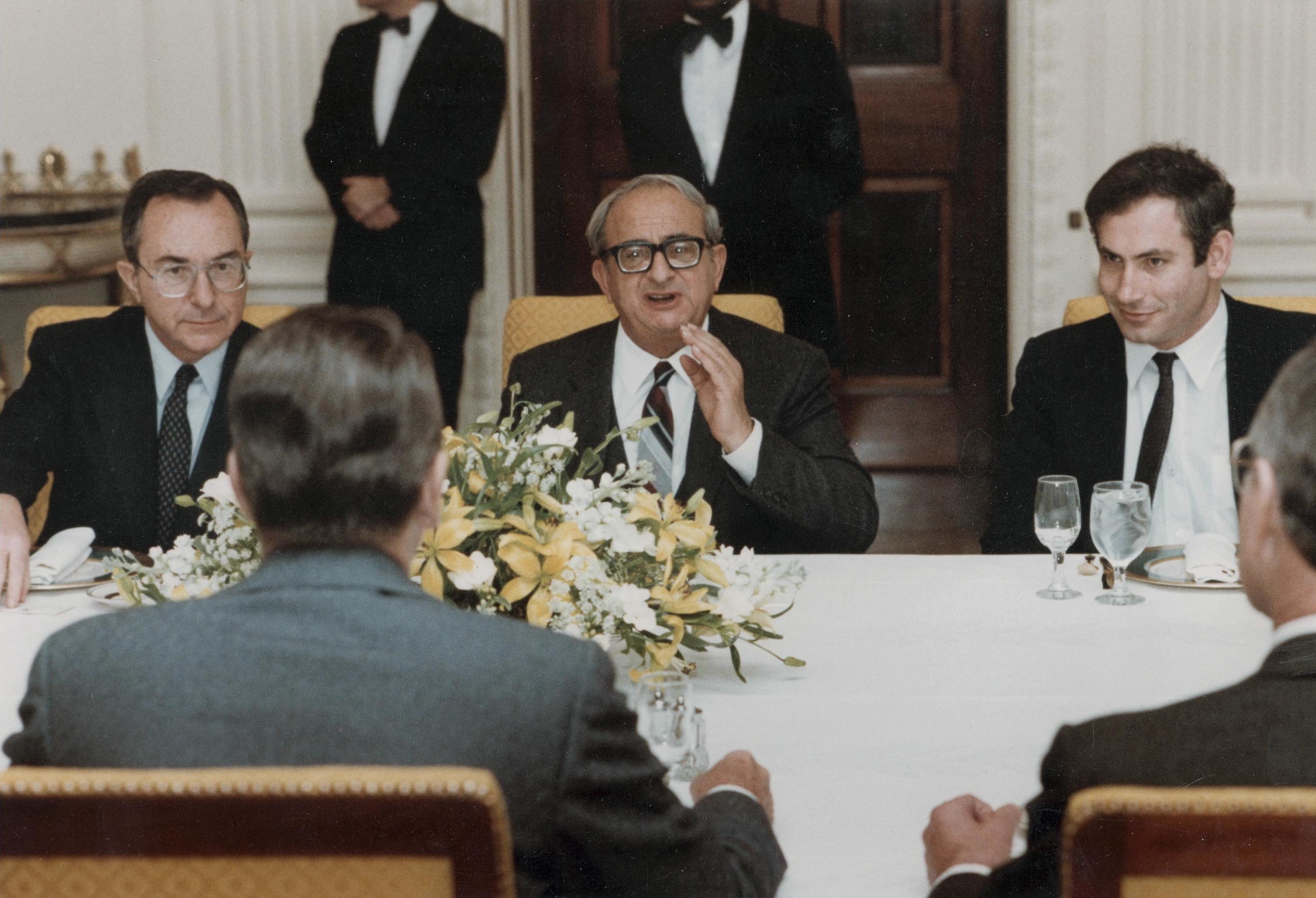 VISIT OF PRES. YITZHAK NAVON IN THE U.S. IN PHOTO, AN OFFICIAL DINNER AT THE WHITE HOUSE IN WASHINGTON. R-L, BINYAMIN NETANYAHU, PRES. NAVON & AMBASSADOR MOSHE ARENS.